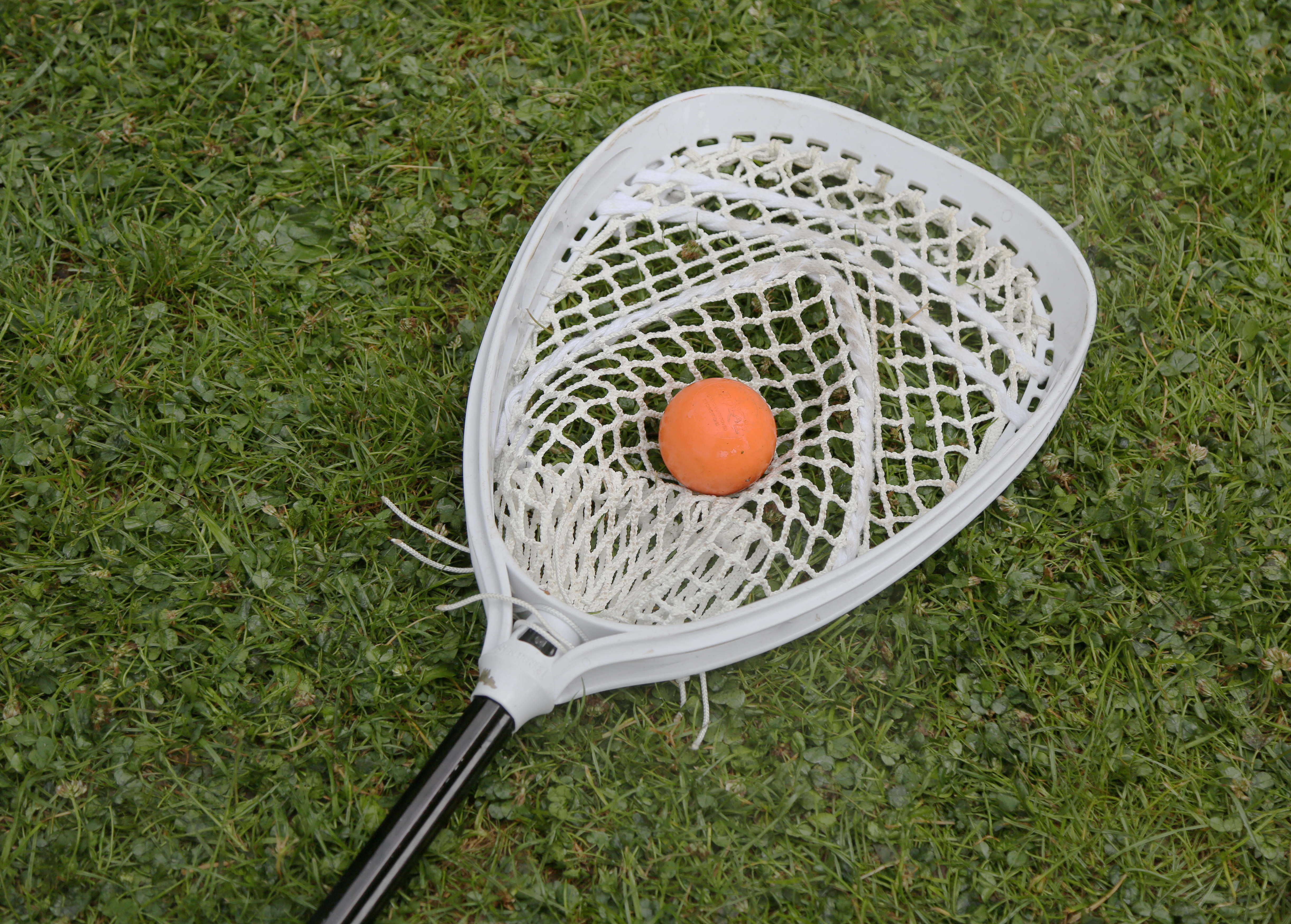 Lacrosse goalie's stick with ball. See the much larger head compared to a regular stick